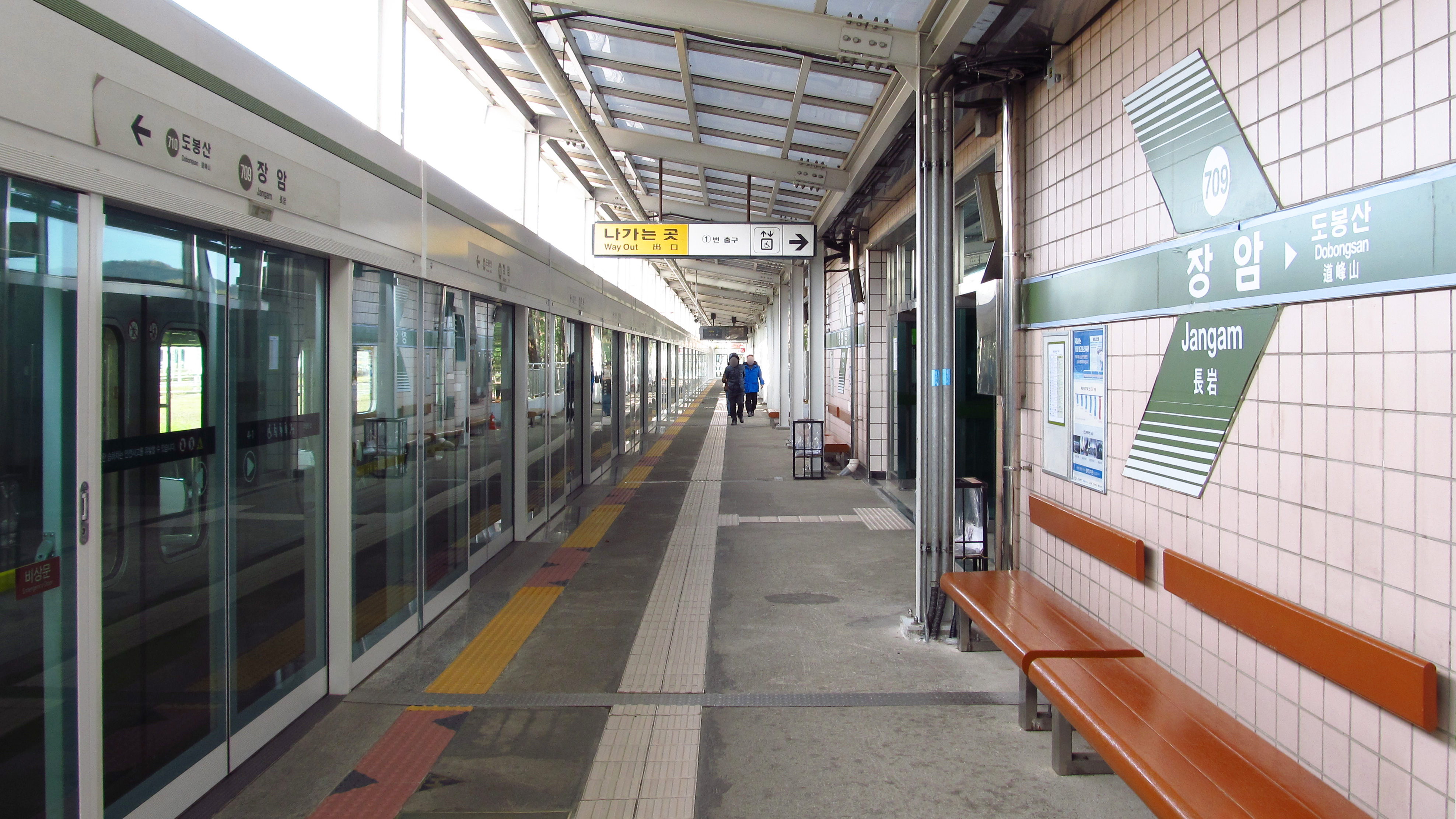 The platform at Jangam Station on Seoul Subway Line 7 in Uijeongbu city, Gyeonggi-do, Republic of Korea(South Korea)